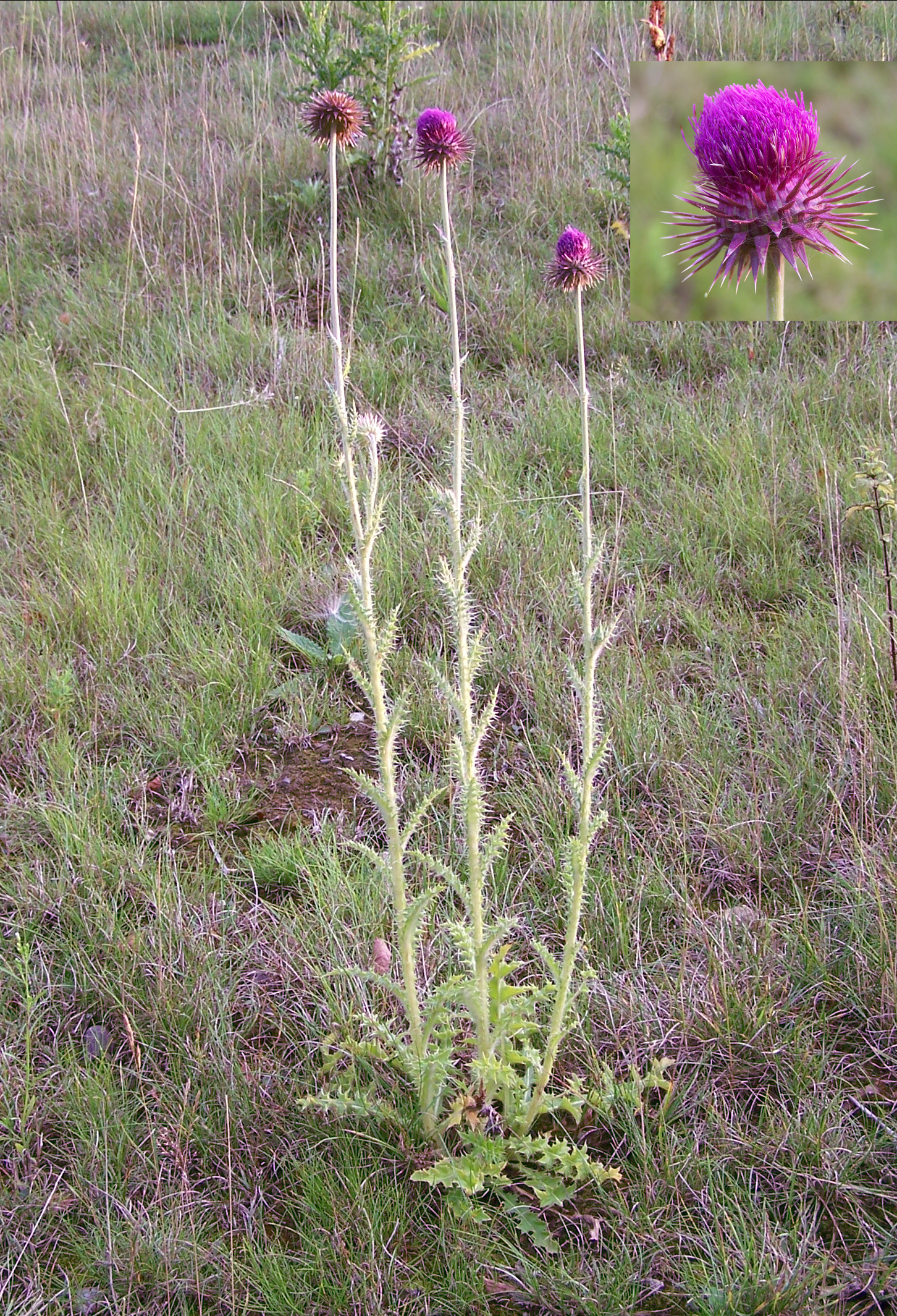 Nodding Thistle